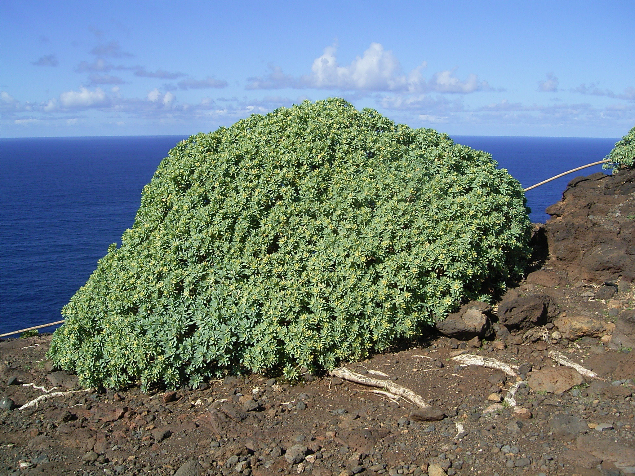 Euphorbia balsamifera growing at Vía Puerto de Garafía in Garafía, La Palma, Canary Island, Spain